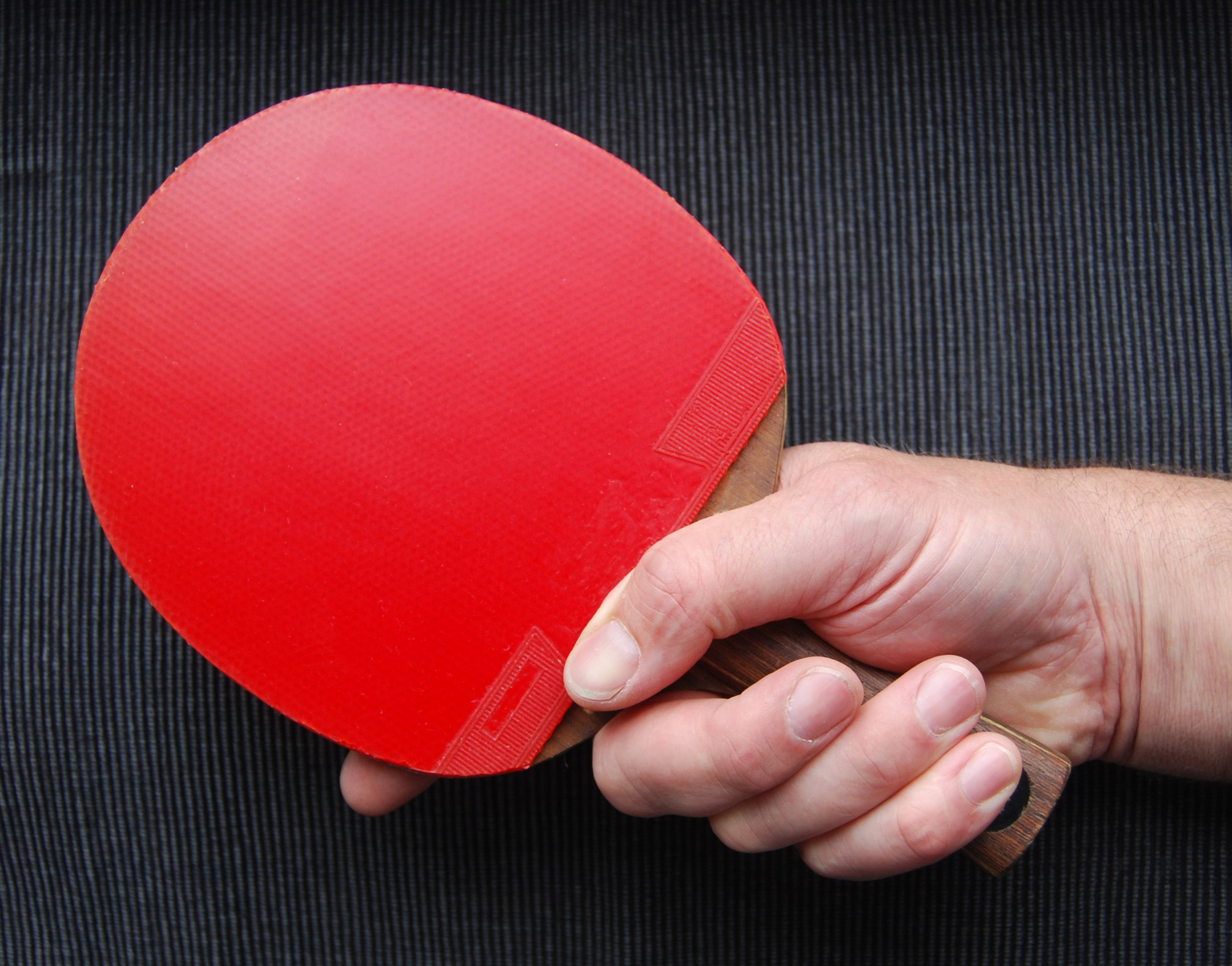 Table tennis - "Shakehand" grip